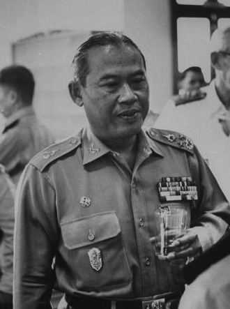 General Thanom Kittikachorn (later Field Marshal and Prime Minister of Thailand).